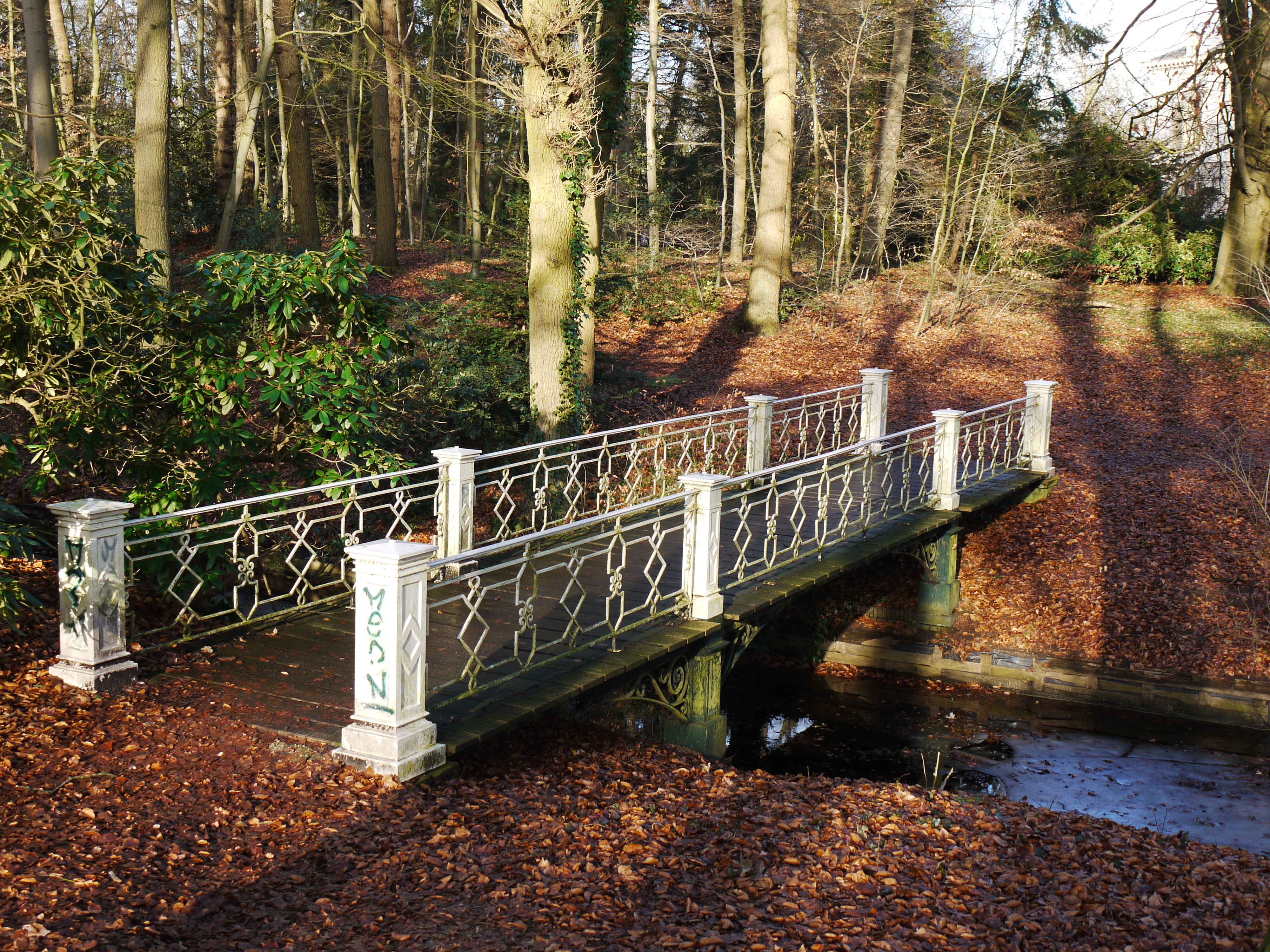 Bridge at Pavia, en estate in Zeist.